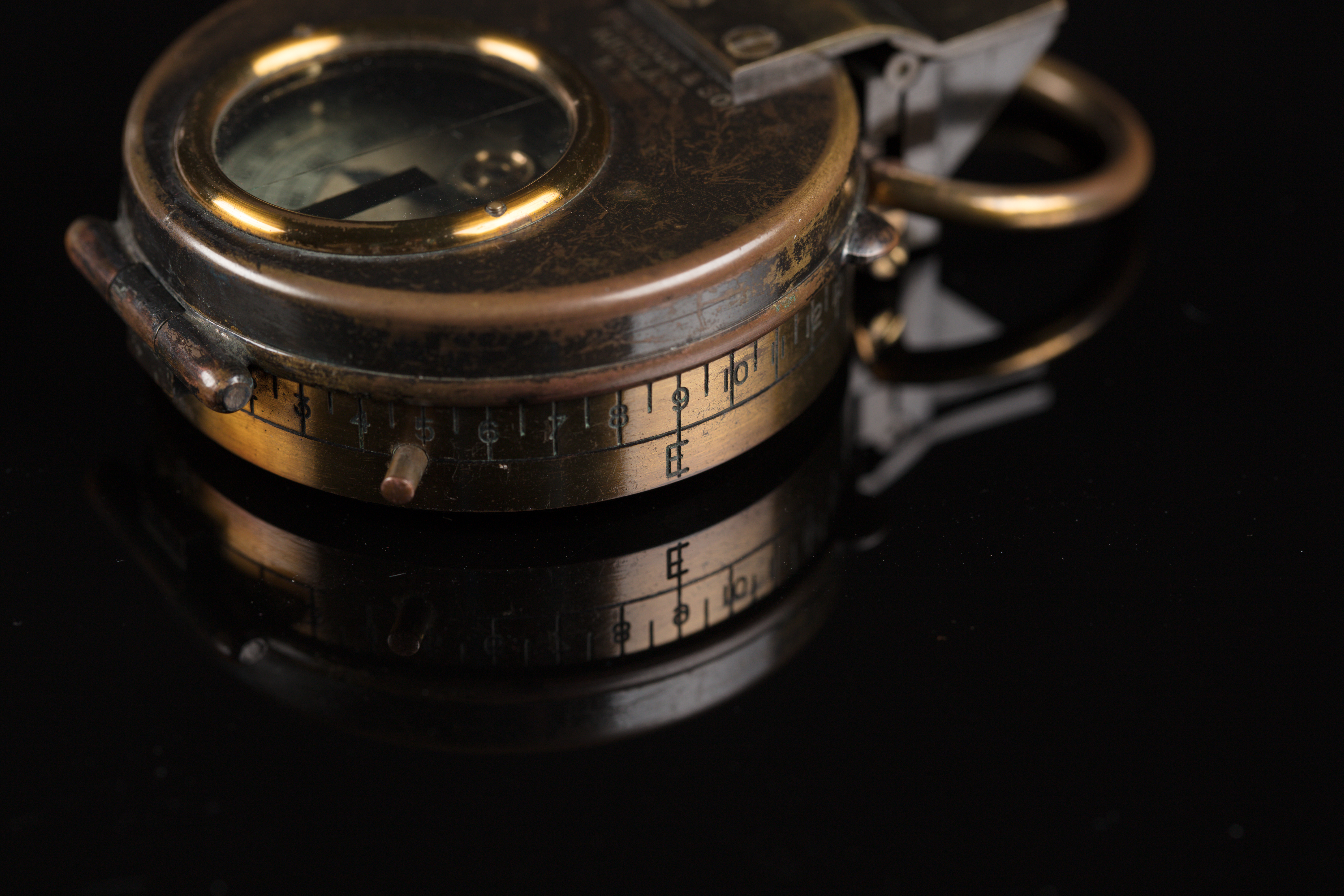 Pocket compass used by Jean Batten for world record flight to New Zealand, 1936. Brass compass made by or retailed by T Peacock & Son, Auckland.